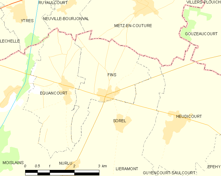 Map of French municipality Fins